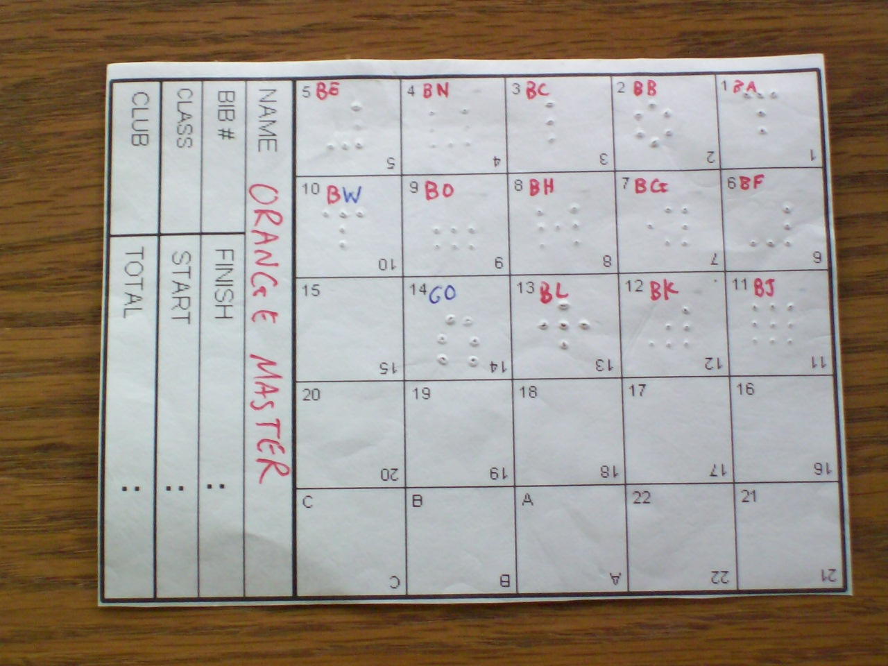 Control card, marked using 14 different needle punches used at control points on an orienteering course.